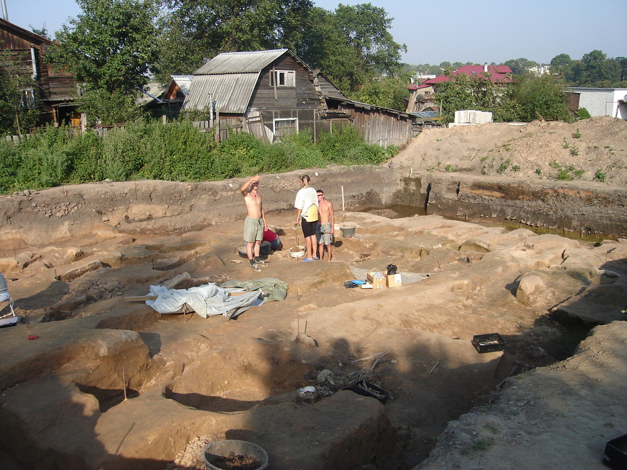 Archological Dig in The Grad of Vologda (2007)